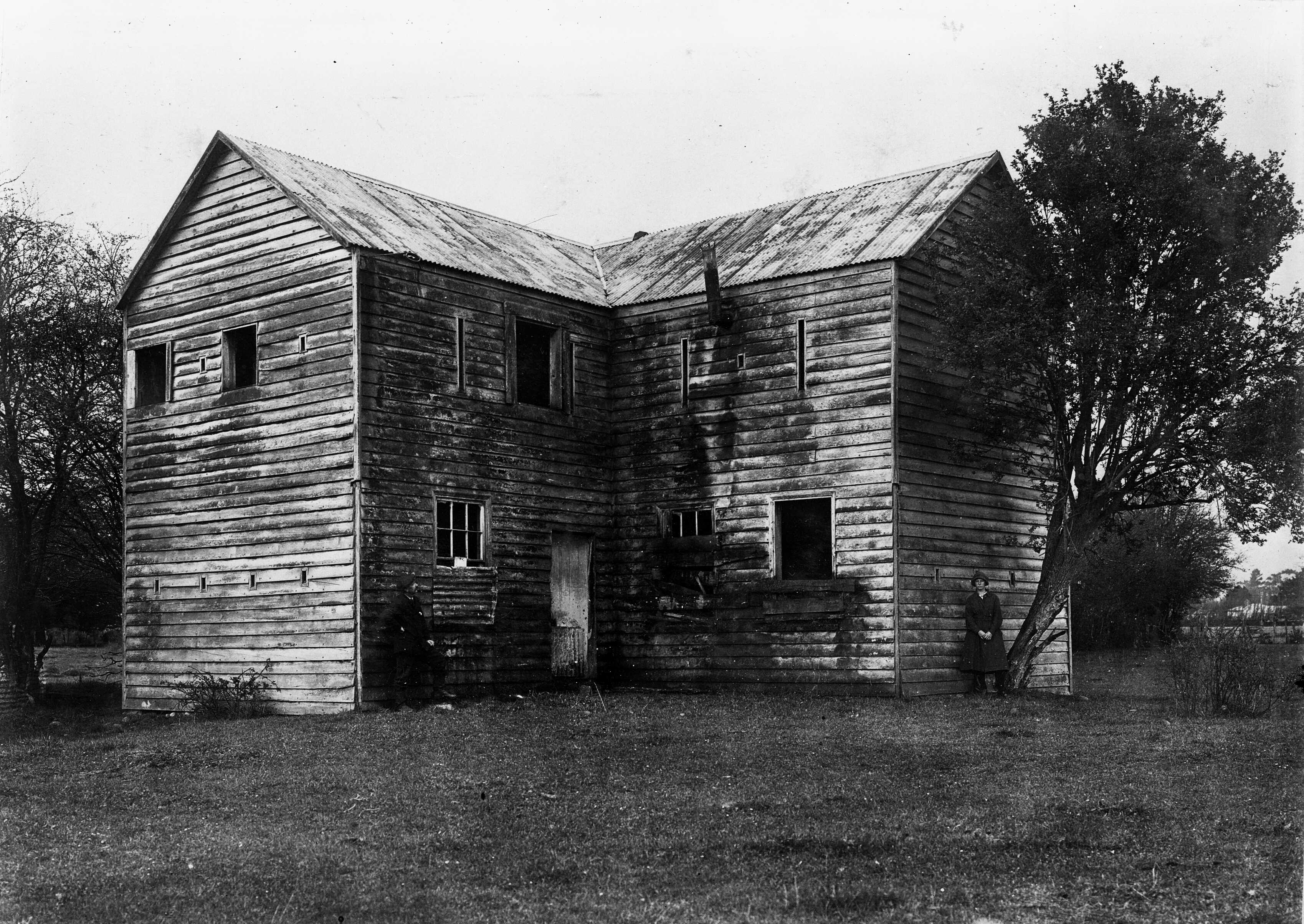 The Blockhouse in Wallaceville, Upper Hutt, in 1919. A man and a woman stand outside. Taken by Albert Percy Godber.